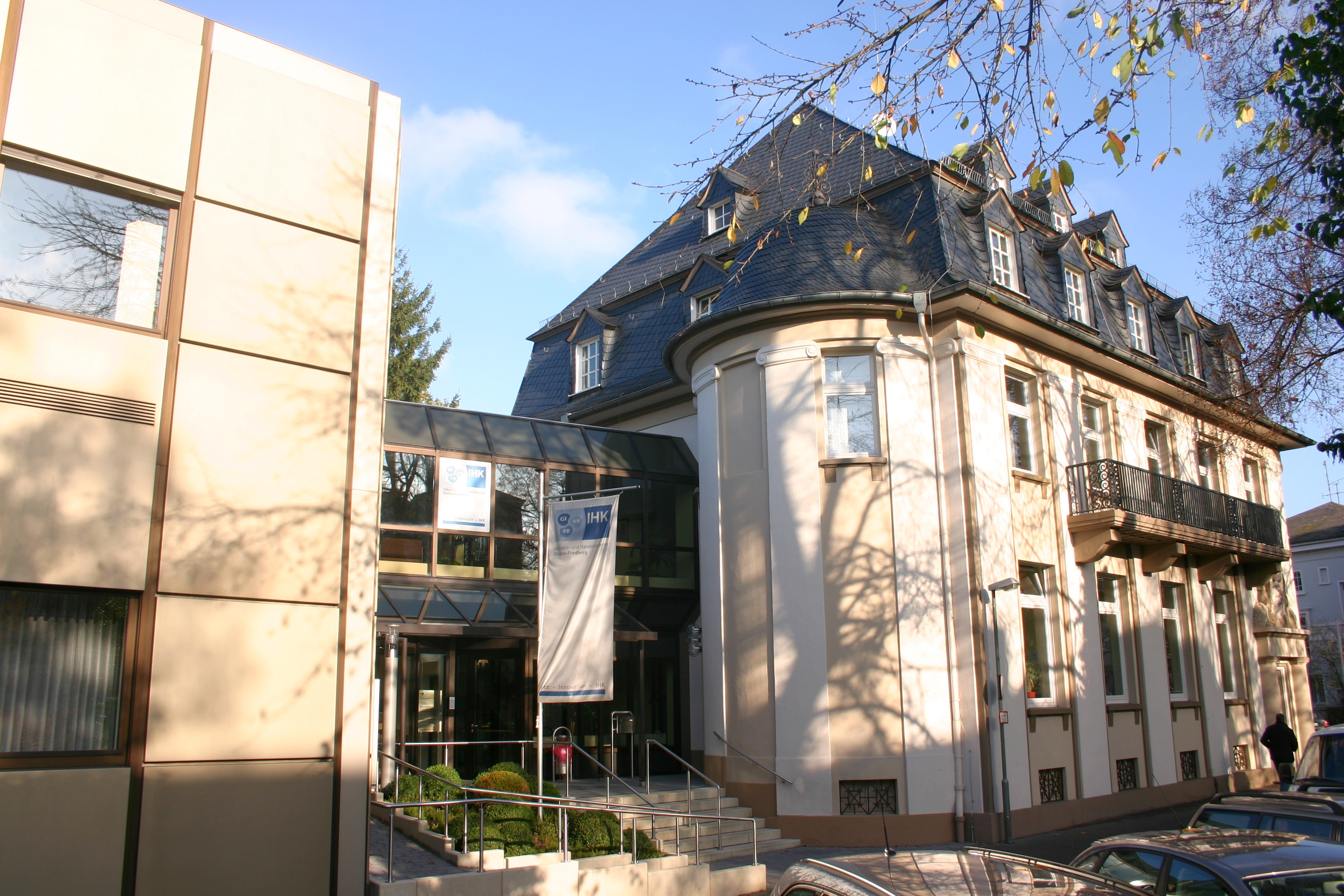 Building of the Chamber of Commerce in Gießen, Germany